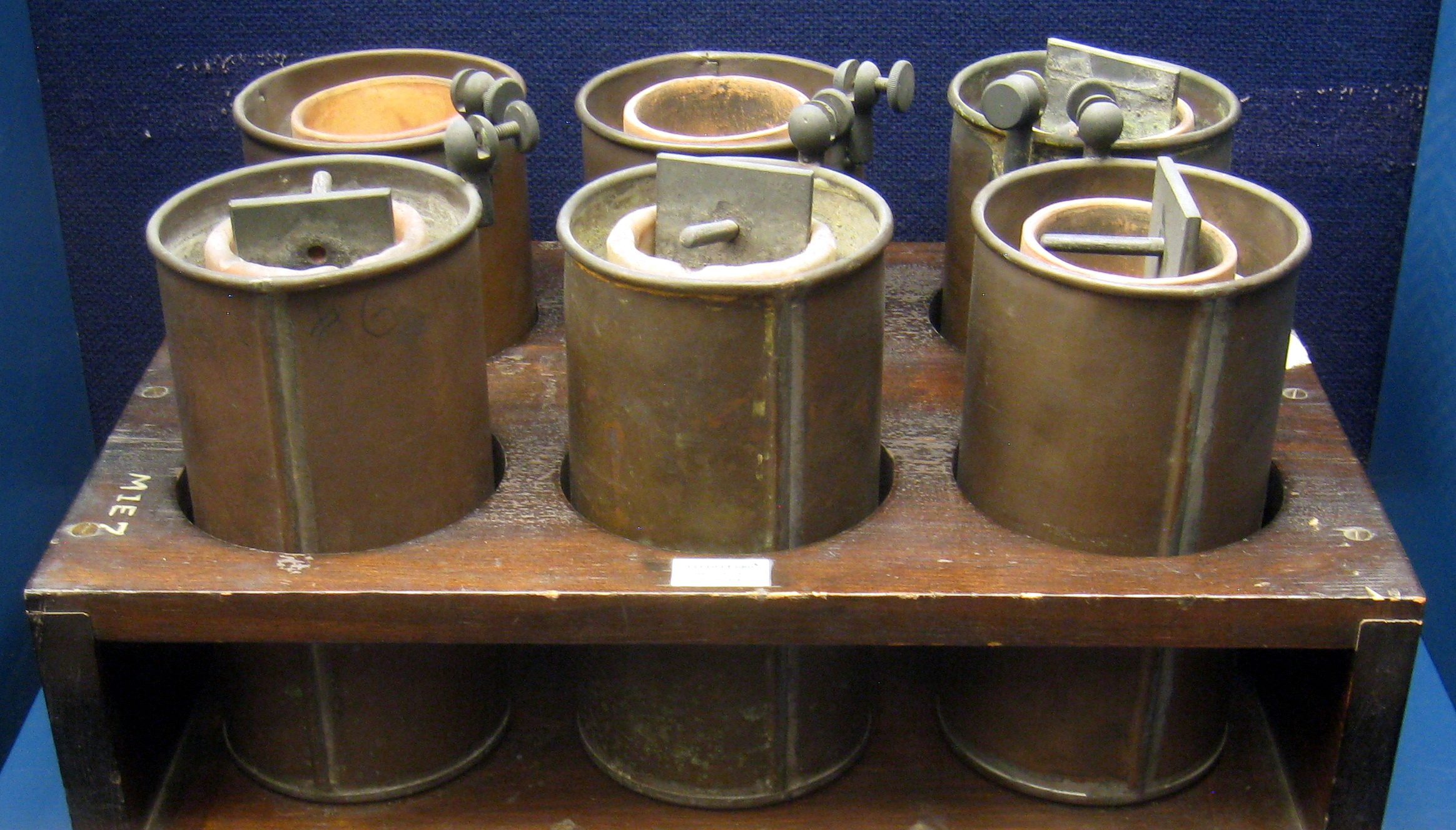 Early batteries. Daniell cell batteries, 1836, by John Frederic Daniell (England). Exhibit in National Museum of American History, Washington, DC, USA.